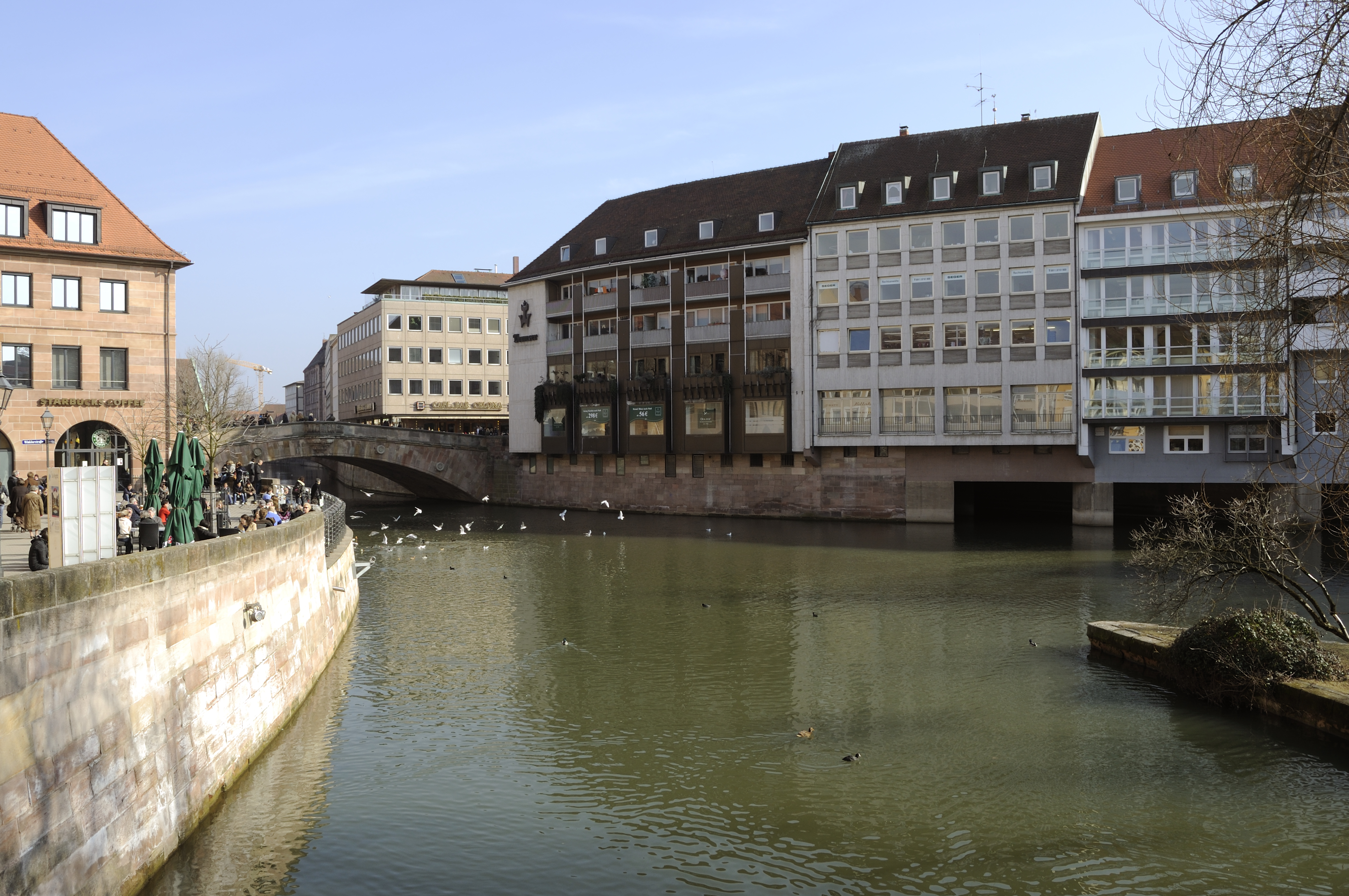 Picture taken in Nuremberg.